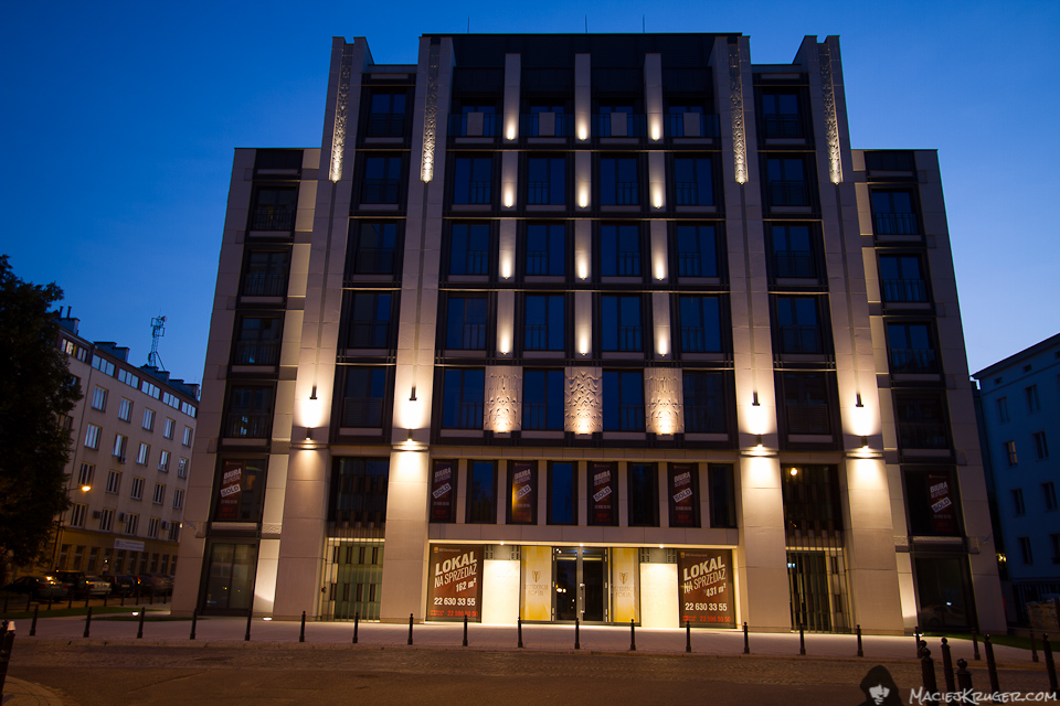 Foksal Residence at night